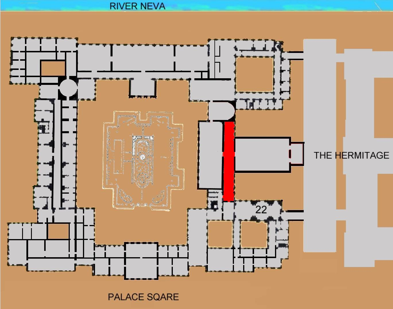 (Plan drawn by uploader to show the location of the Military Gallery, within the Winter Palace, St petersburg. ))